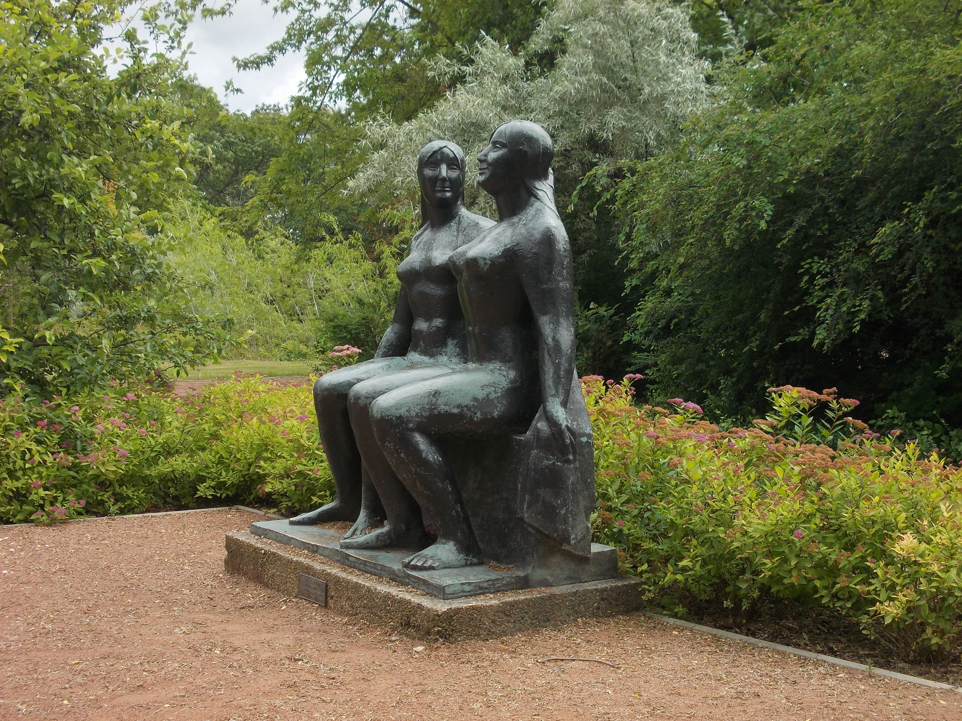 Sculpture Park in Leuna (district: Saalekreis, Saxony-Anhalt), "Swimmers" by Gustav Weidanz